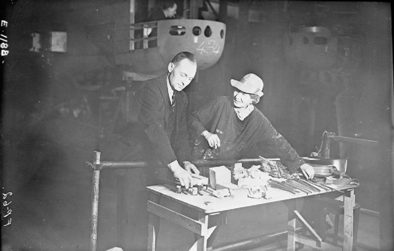 Famous Artist's Studio in a Bomber Factory Charge hand Wilfred Powell helps Dame Laura Knight to set out her paints on a work bench in readiness for the day's work.